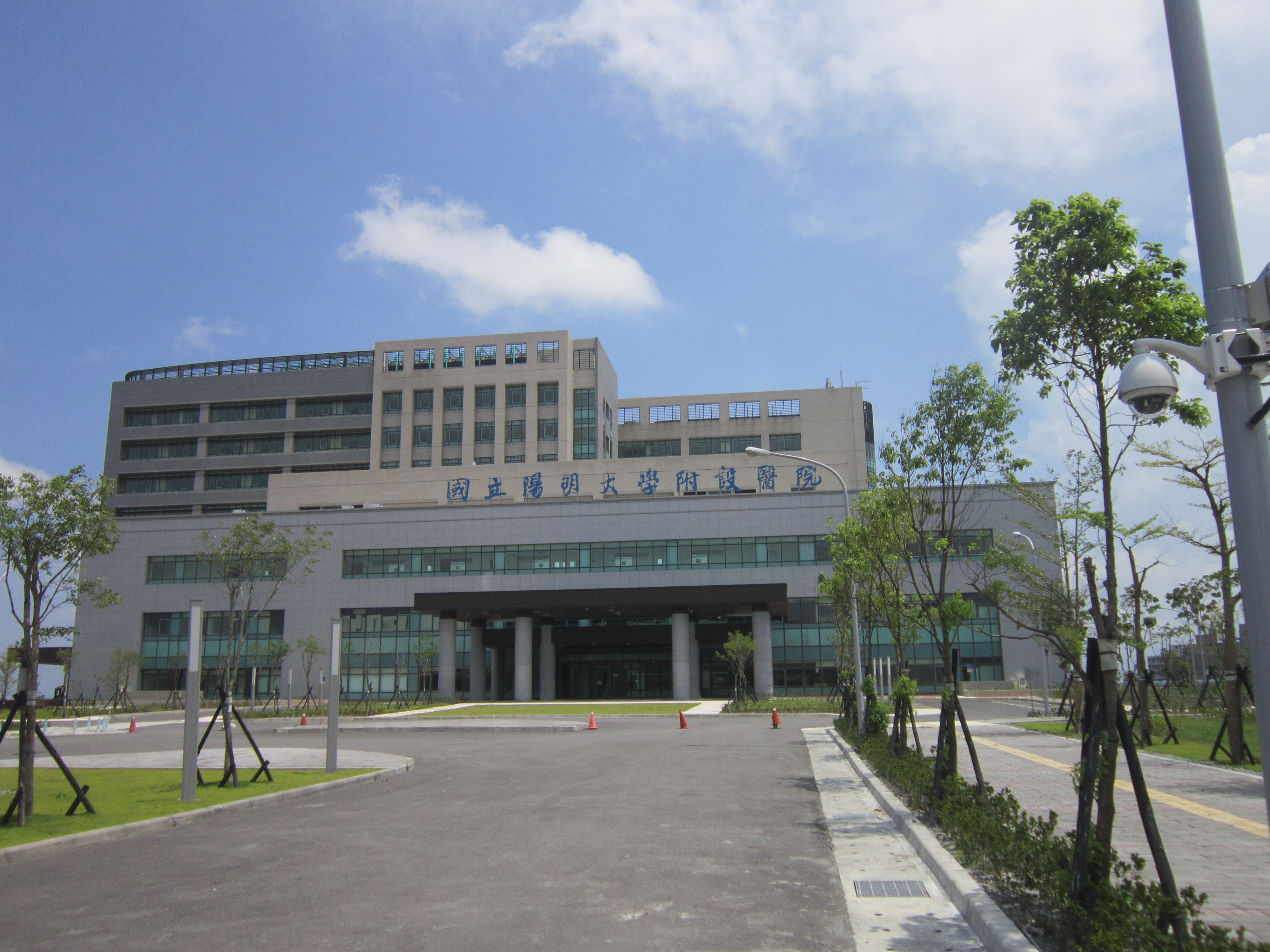 National Yang-Ming University Hospital